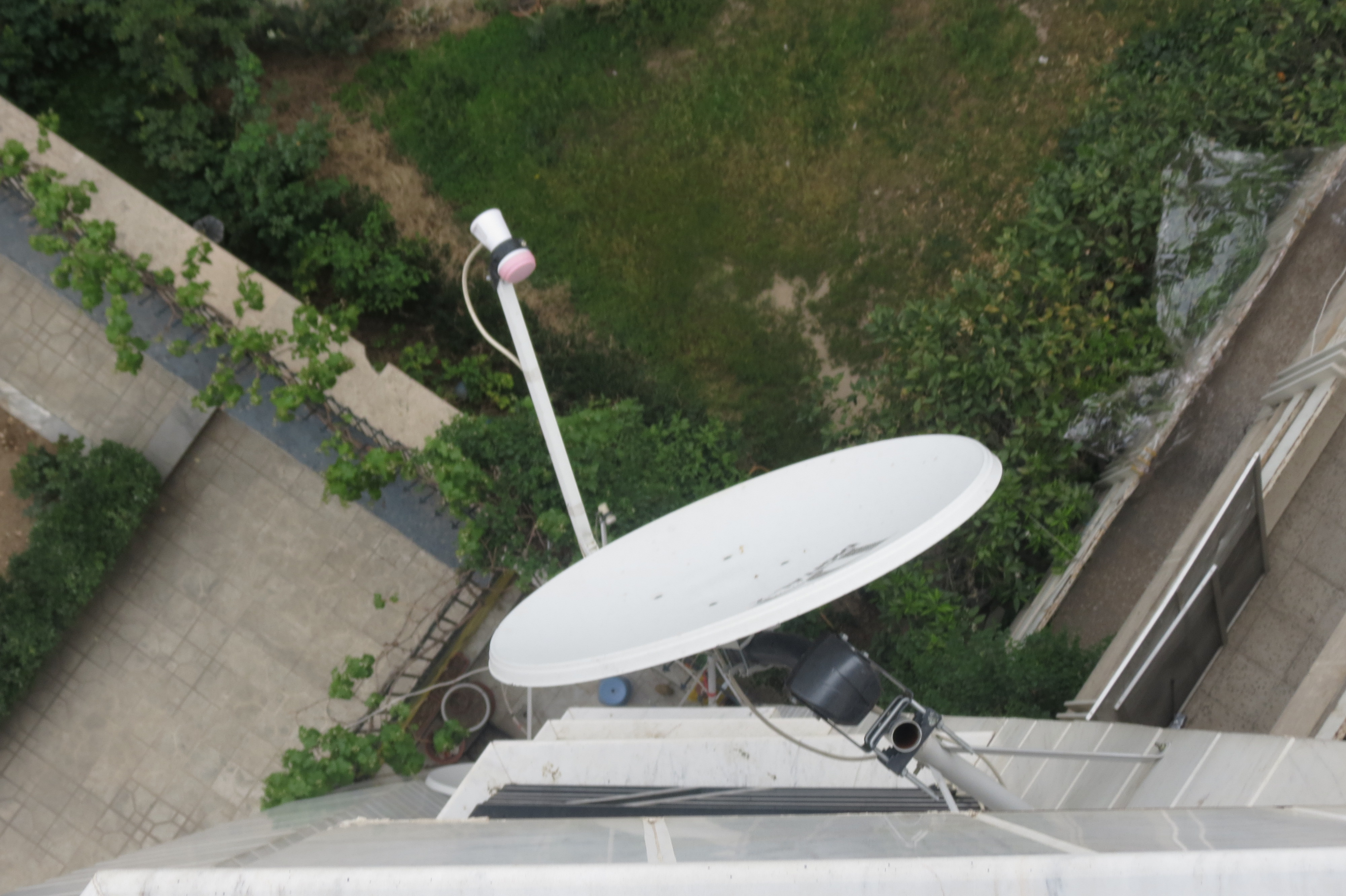 Rotating satellite dishes on the apartment wall